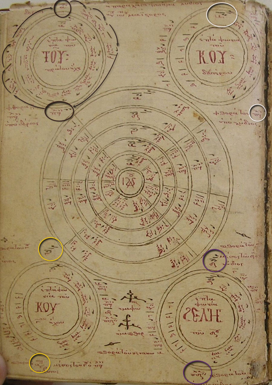 Demonstration at the Koukouzelian Wheel Trochos of a Papadike manuscript